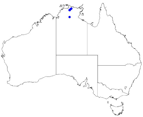 Boronia rupicola downloaded from Australasian Virtual Herbarium 10 April 2019 using This download included all the environmental overlay fields and ALA's data checking fields including "cultivated / escapee", "outside expert range for species", "latitude is negated", "coordinates are transposed", "taxon misidentified", "habitat incorrect for species", and "suspected outlier" (711 fields). Deleting occurrences for which any of the above were true, 46 specimens with coordinates were deleted.